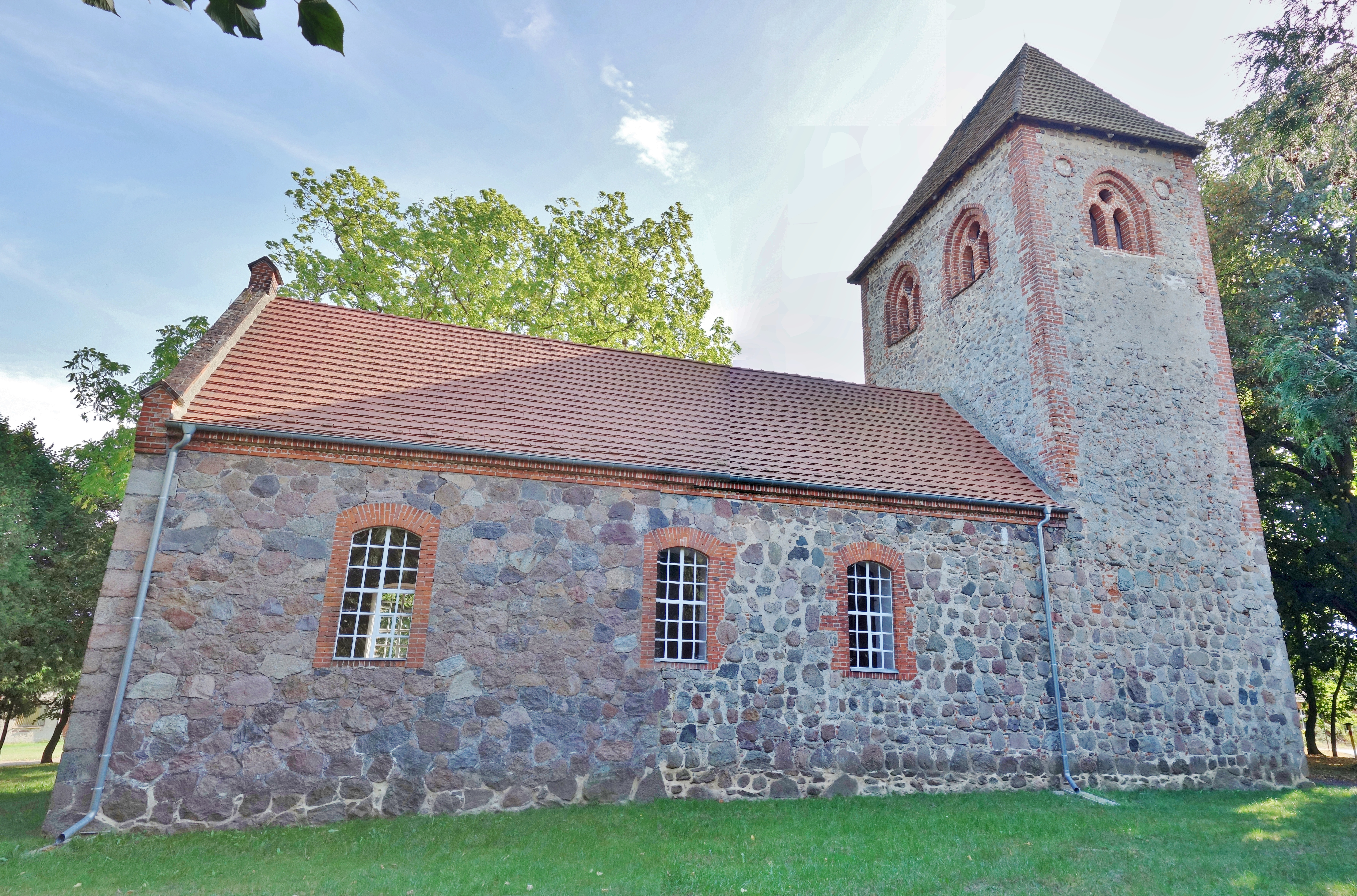 Northern view of church in Rohlsdorf, Halenbeck-Rohlsdorf municipality, Prignitz district, Brandenburg state, Germany